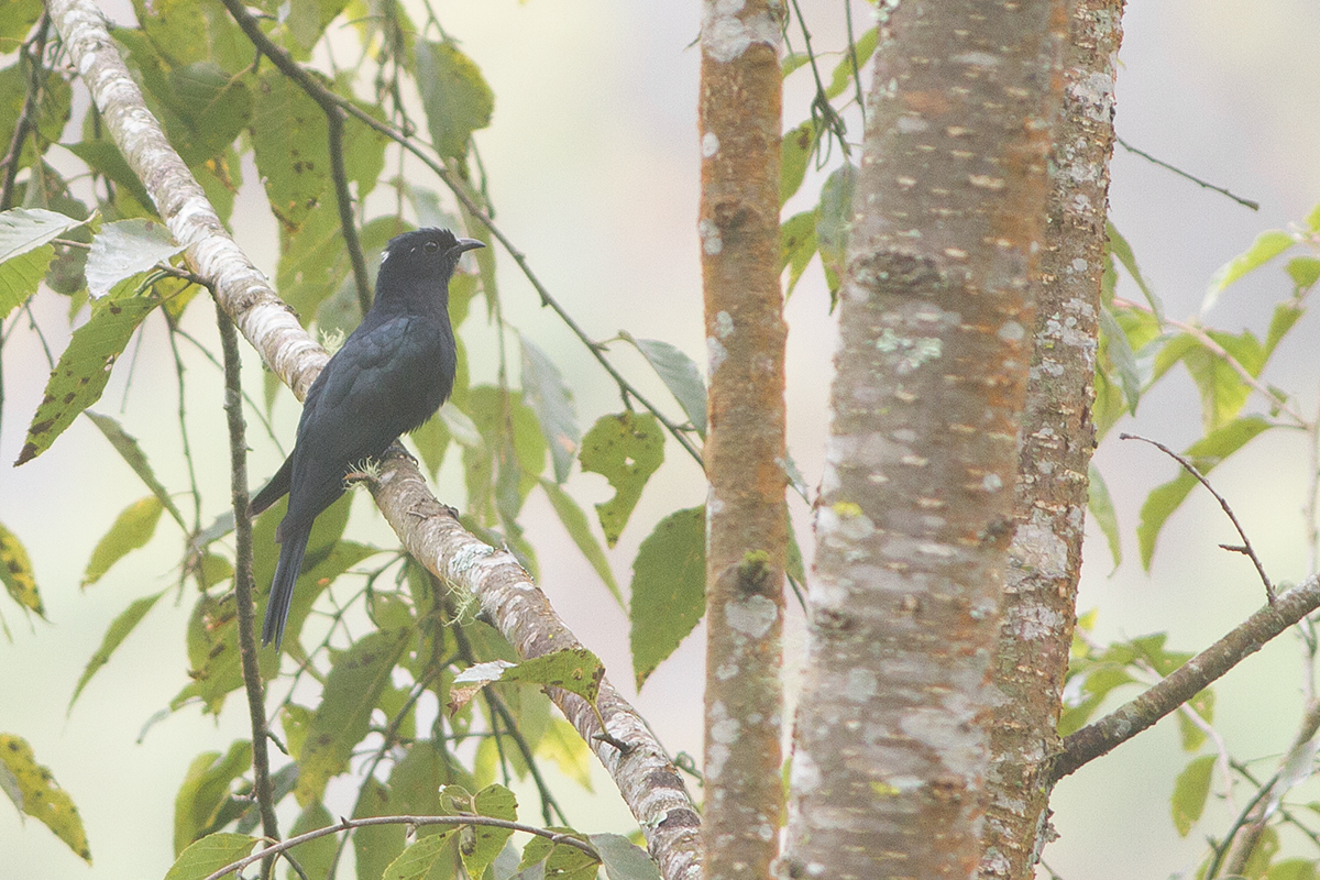 Drongo Cuckoo has been photographed the birding tour of GoingWild from East Pendam-Budang birding area in Sikkim, India in the month of September 2017.